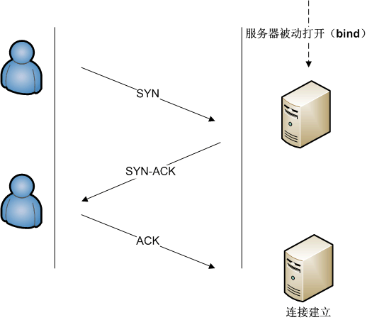 TCP normal connection.